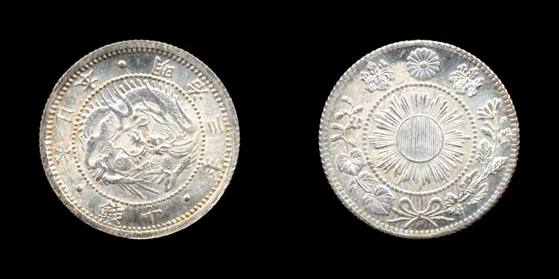 10sen-M3